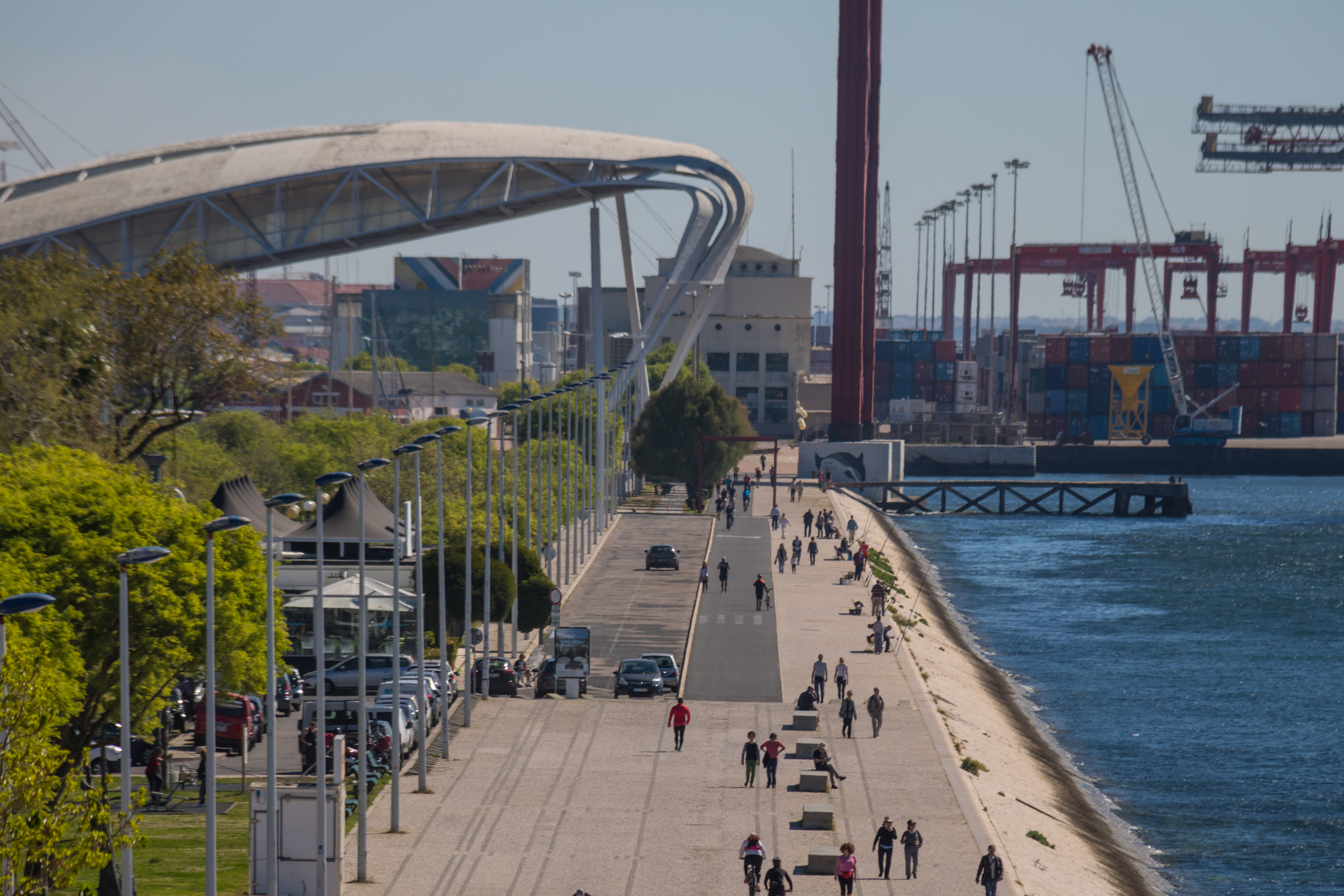 By the river